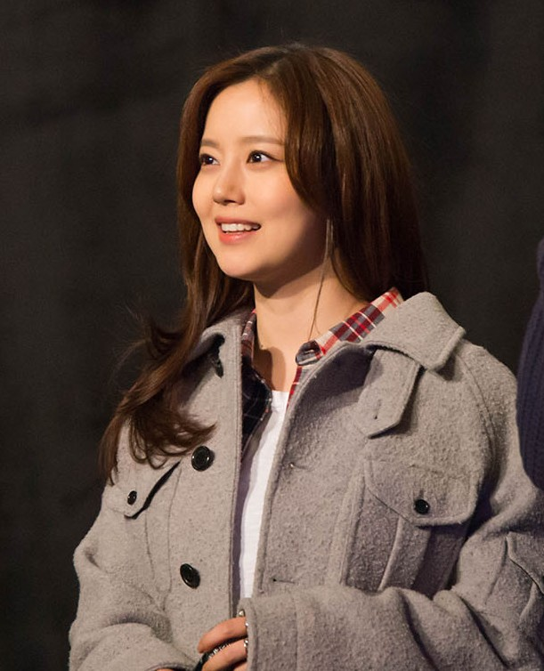 Moon Chae-won at the premiere for "Love Forecast", 17 January 2015